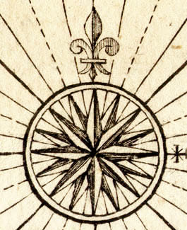 1753 Van keulen Dutch Map of Ari Atoll Maldives.